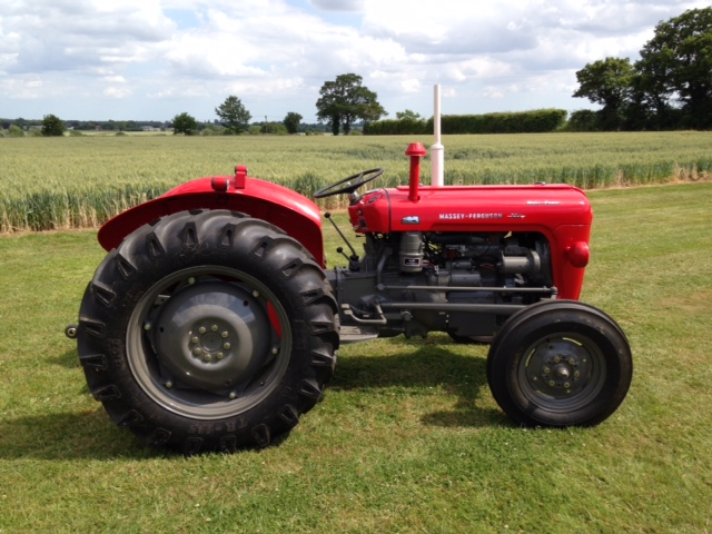 A 1964 multi-power British Massey Ferguson MF35X - side view